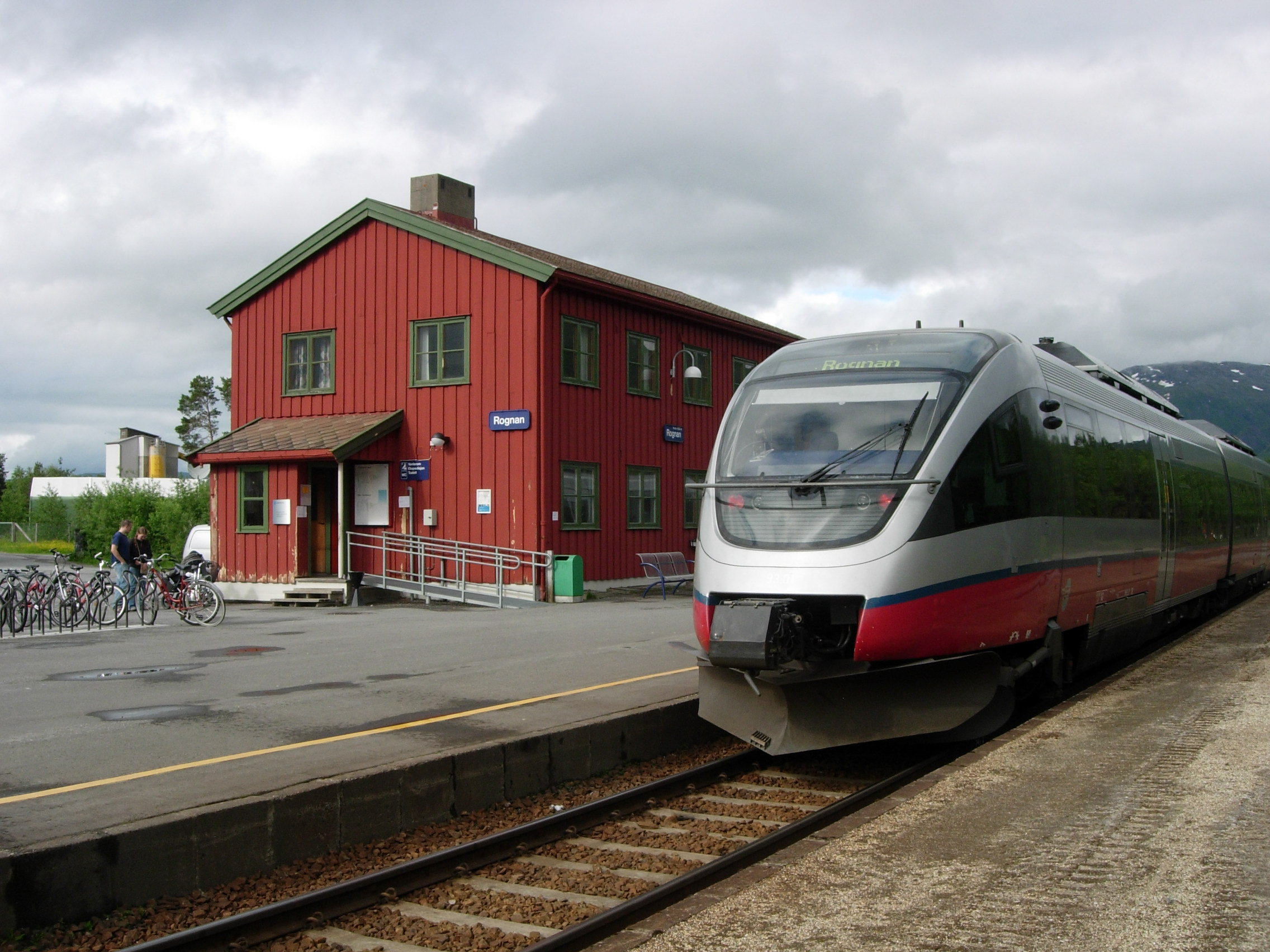 Rognan stasjon on Nordlandsbanen, Norway (and NSB BM93)